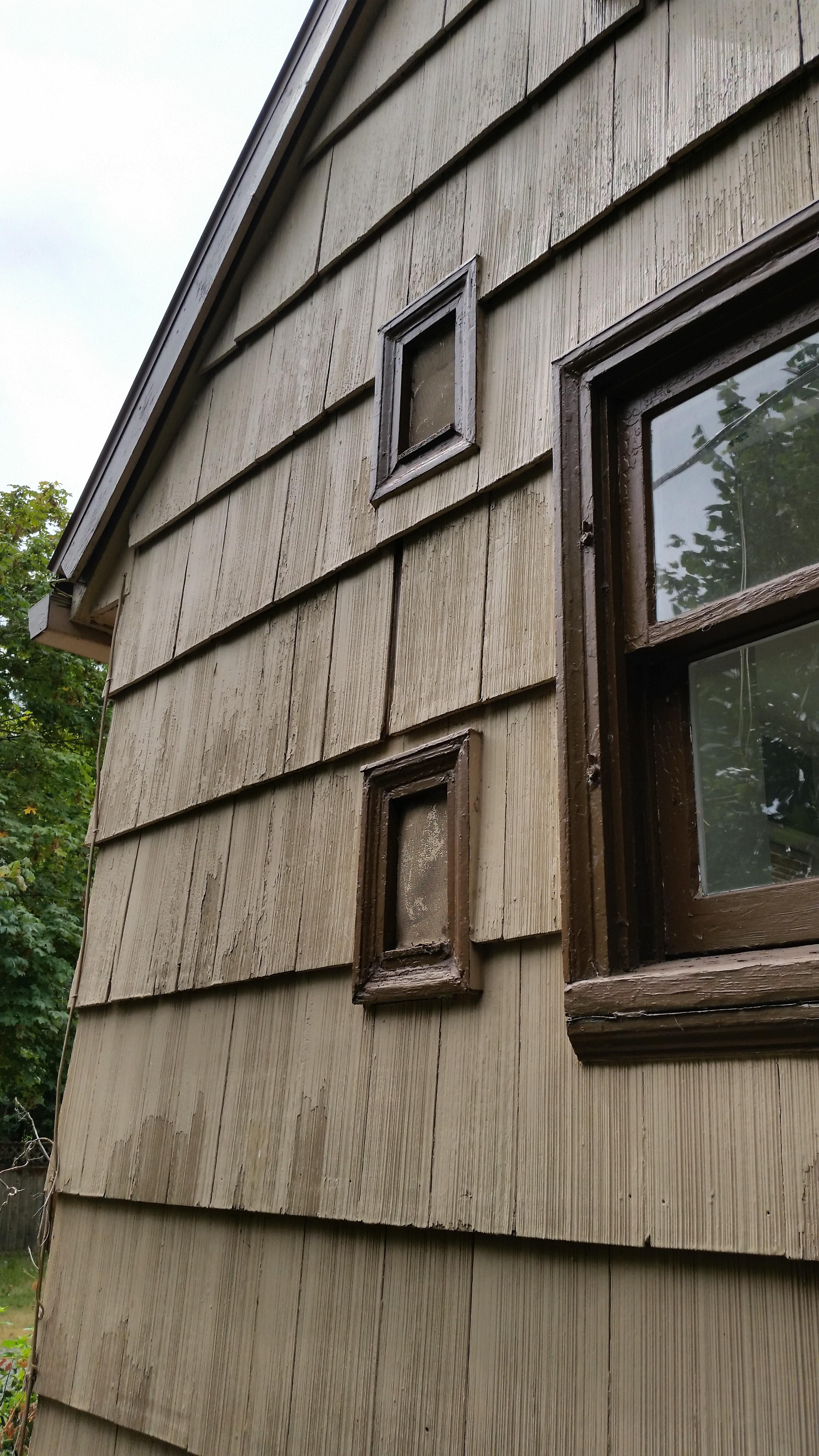 Exterior of house with vents for kitchen cold pantry